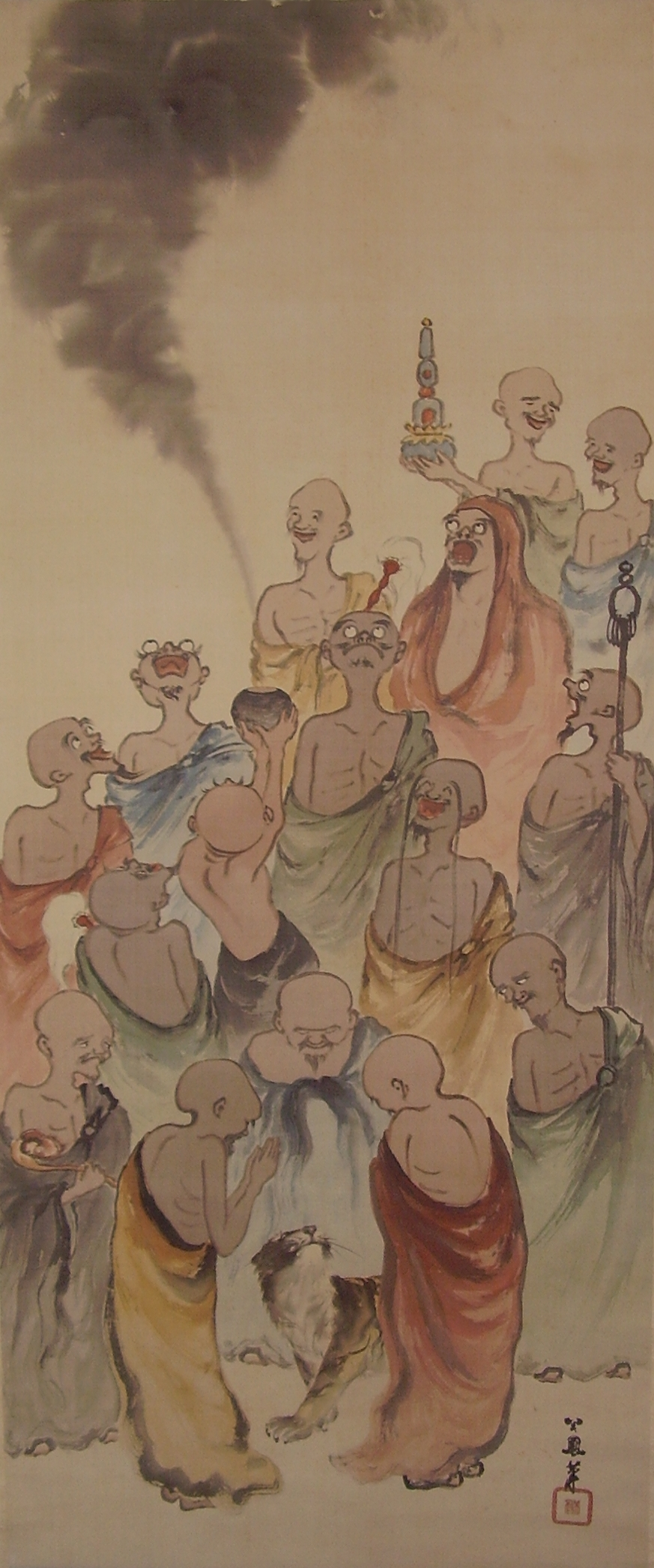 Painting of the 16 Arhats/Arhants/Luohans a.k.a. Juroku Rakan; they are depicted with various associated symbolic items; done in a "gentle caricature" style; late 19th to early 20th century, Japanese. Signed & sealed, artist not (yet) identified. Each arhat is (probably) intended to be individually identifiable, through their actions & associated objects. For example, the red-hooded figure in the top right quadrant is Bodhidarma/Daruma. Edited version (cropped) intended as a working print, for use in wikipedia articles, etc.